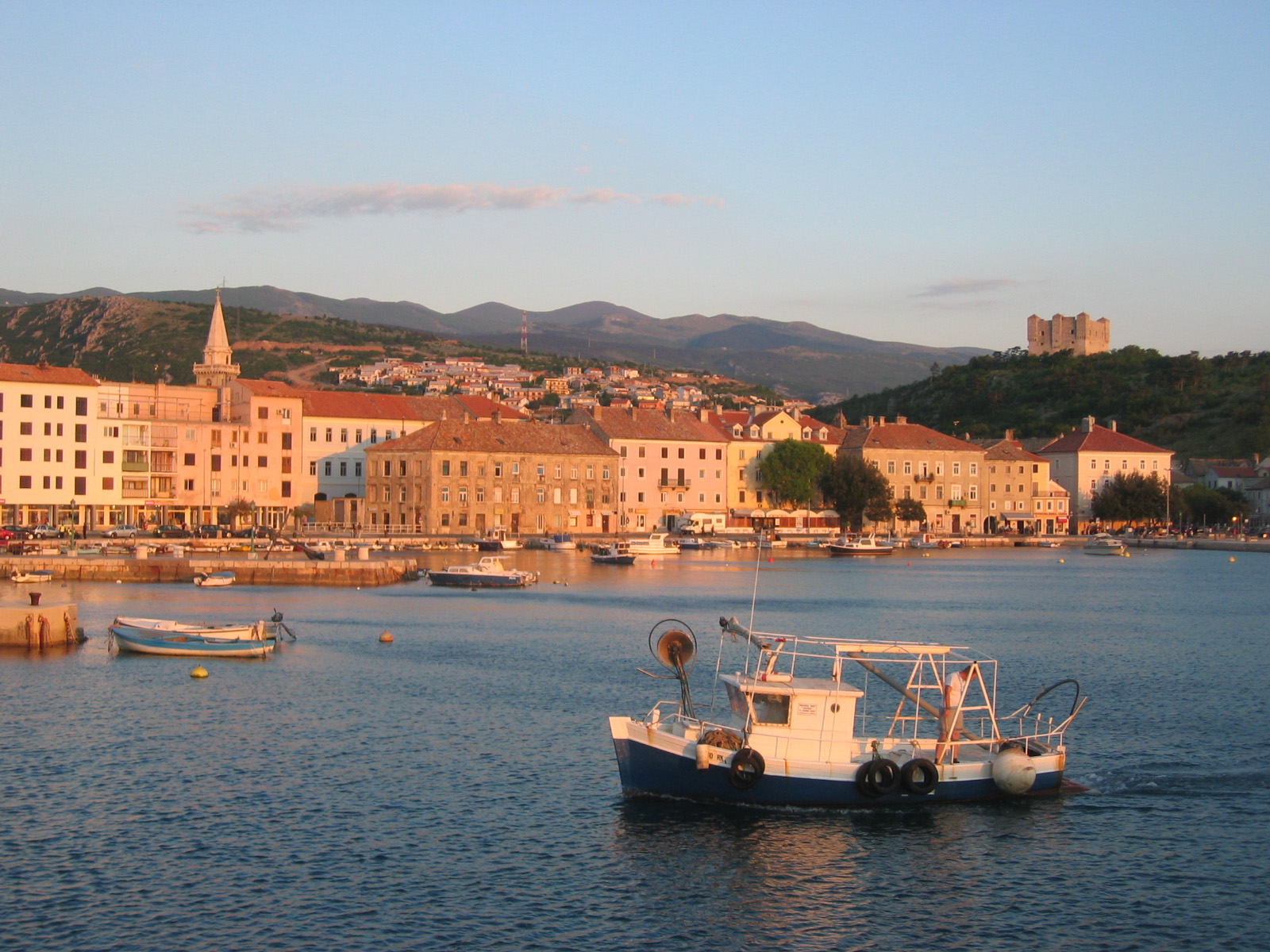 Senj, town in north Adriatic (Croatia)